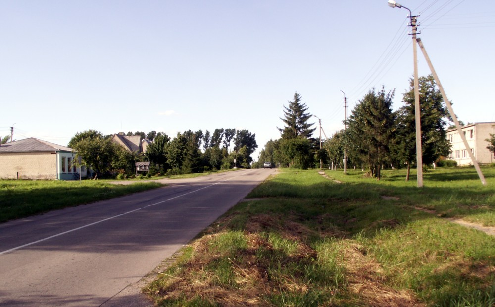 Einoraičiai, Šiauliai district, Lithuania